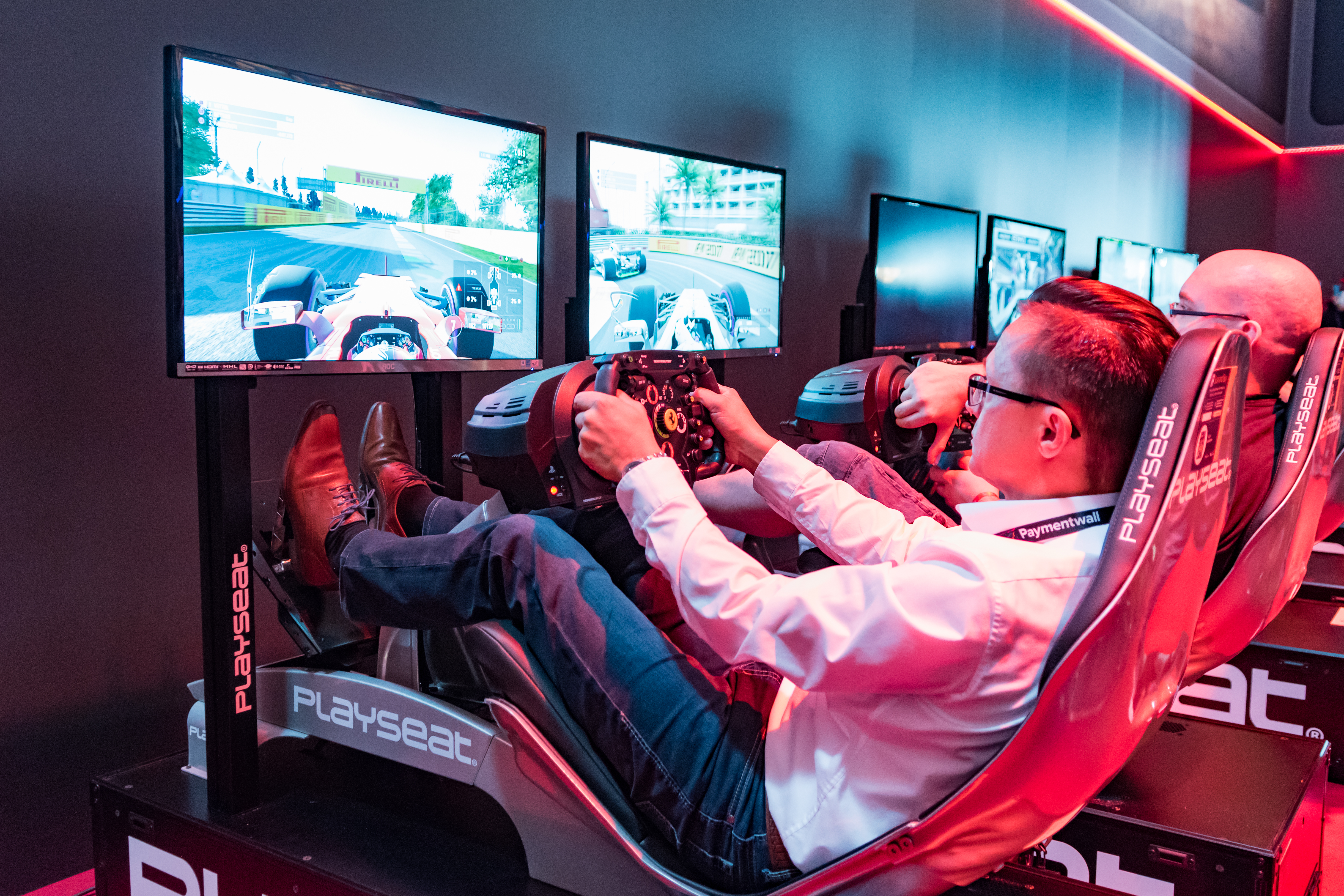 Playseat Rennsimulator